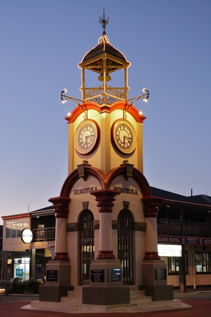 The famous Hokitika clock tower at dusk.